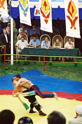 KAZAN. Sabantui, a Tatar festival. A wrestling competition.